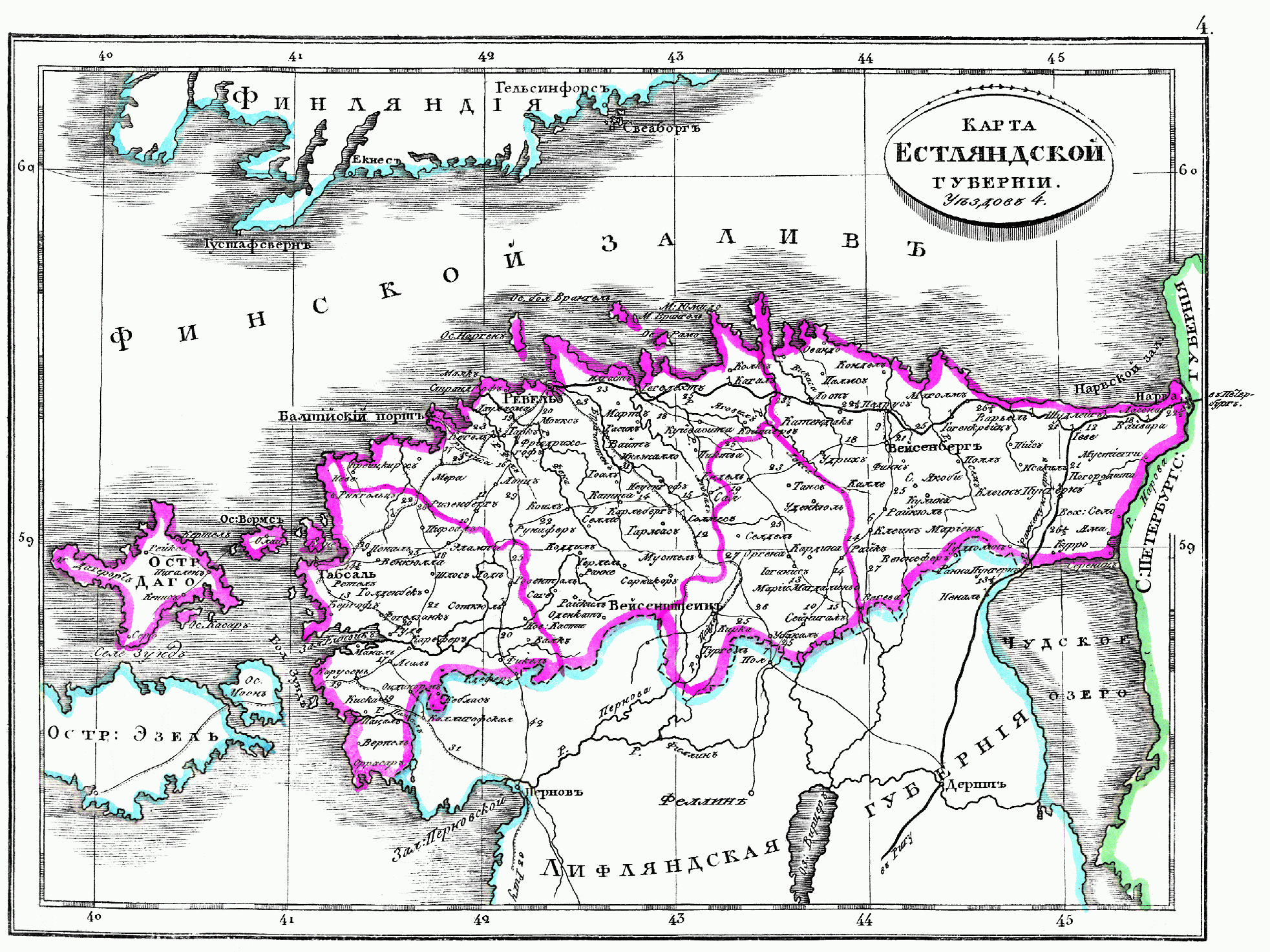 Map of Estlandia Governorate, 1835